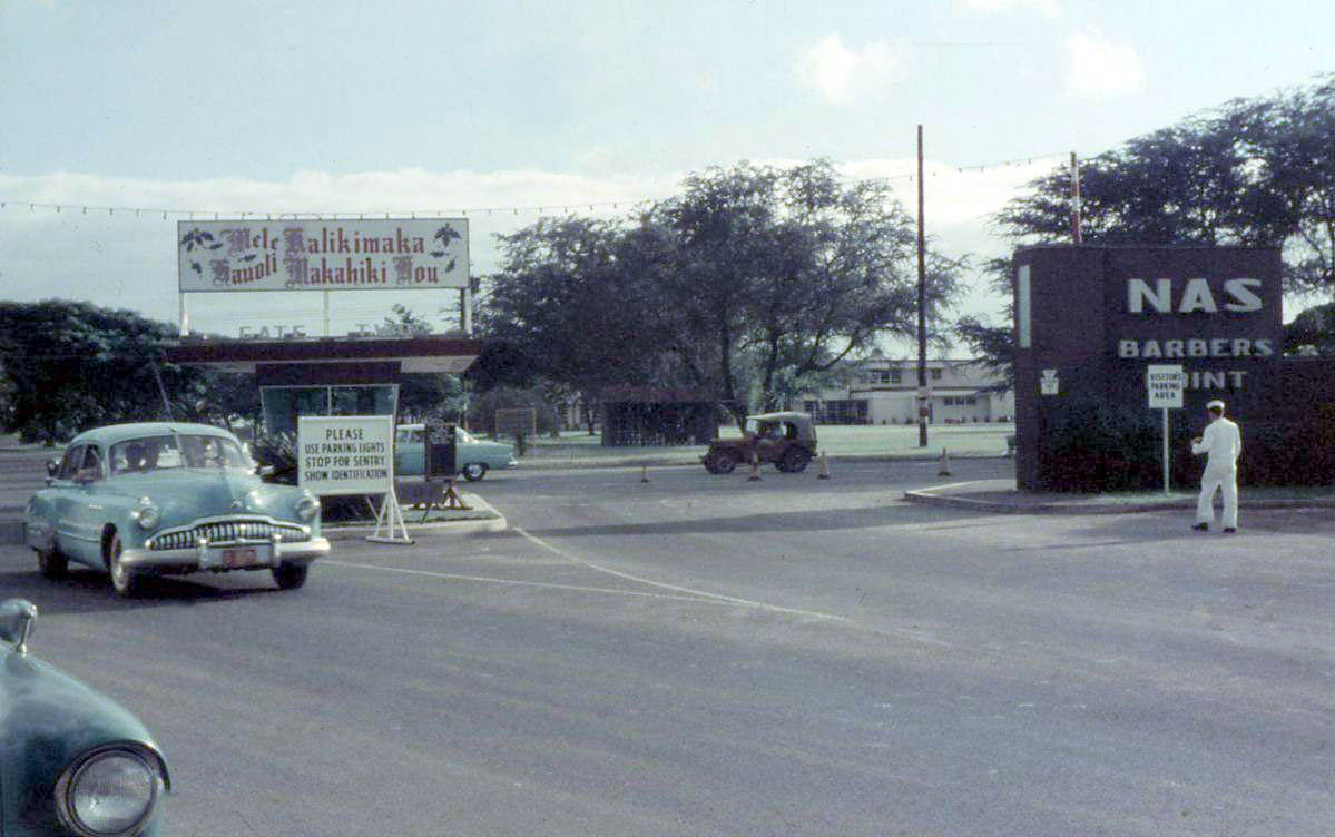 Entry gate at the Naval Air Station at Barber's Point, Territory of Hawaii, Christmas 1958.